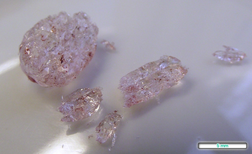 Photo of Phenol, almost pure